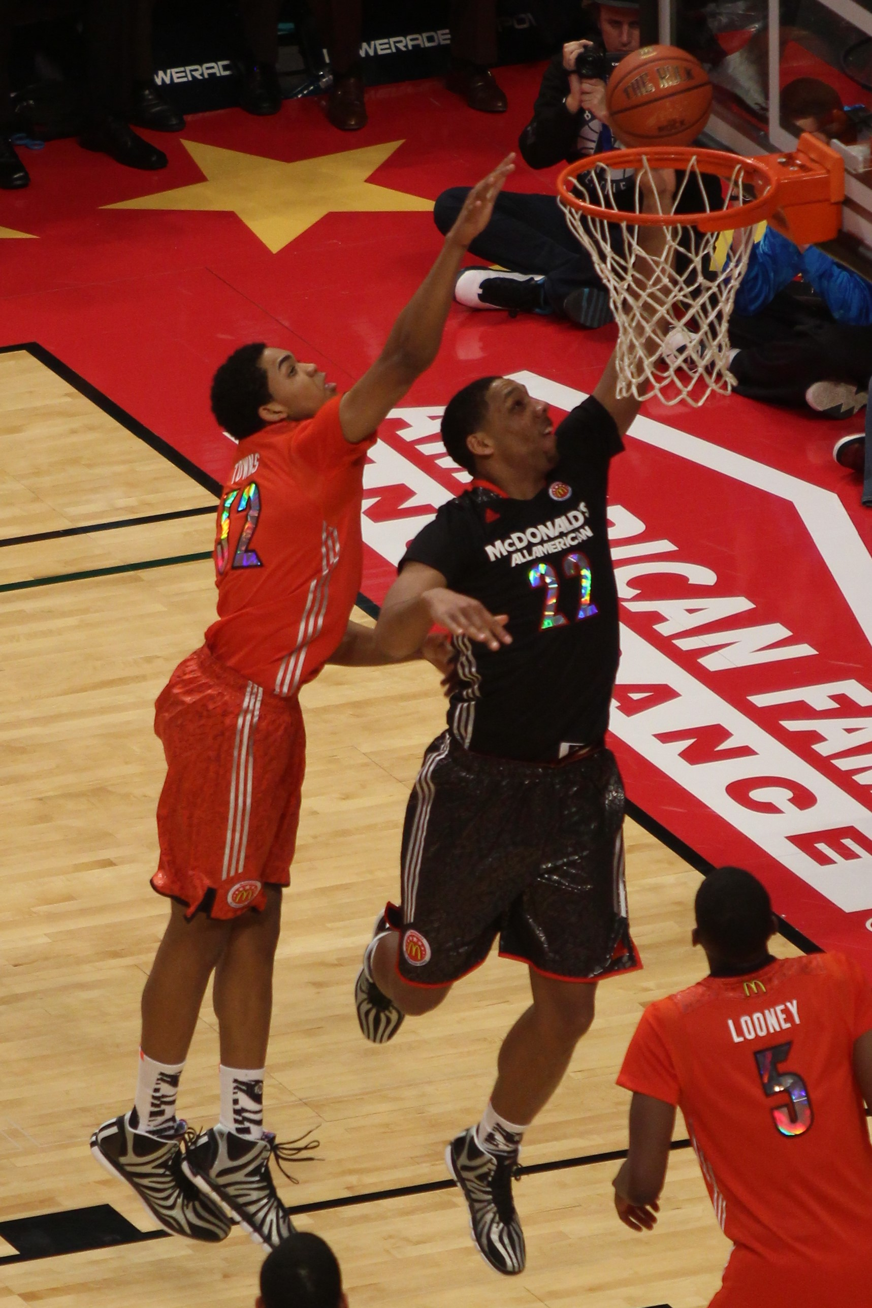 Jahlil Okafor against Karl Towns in the w:2014 McDonald's All-American Boys Game